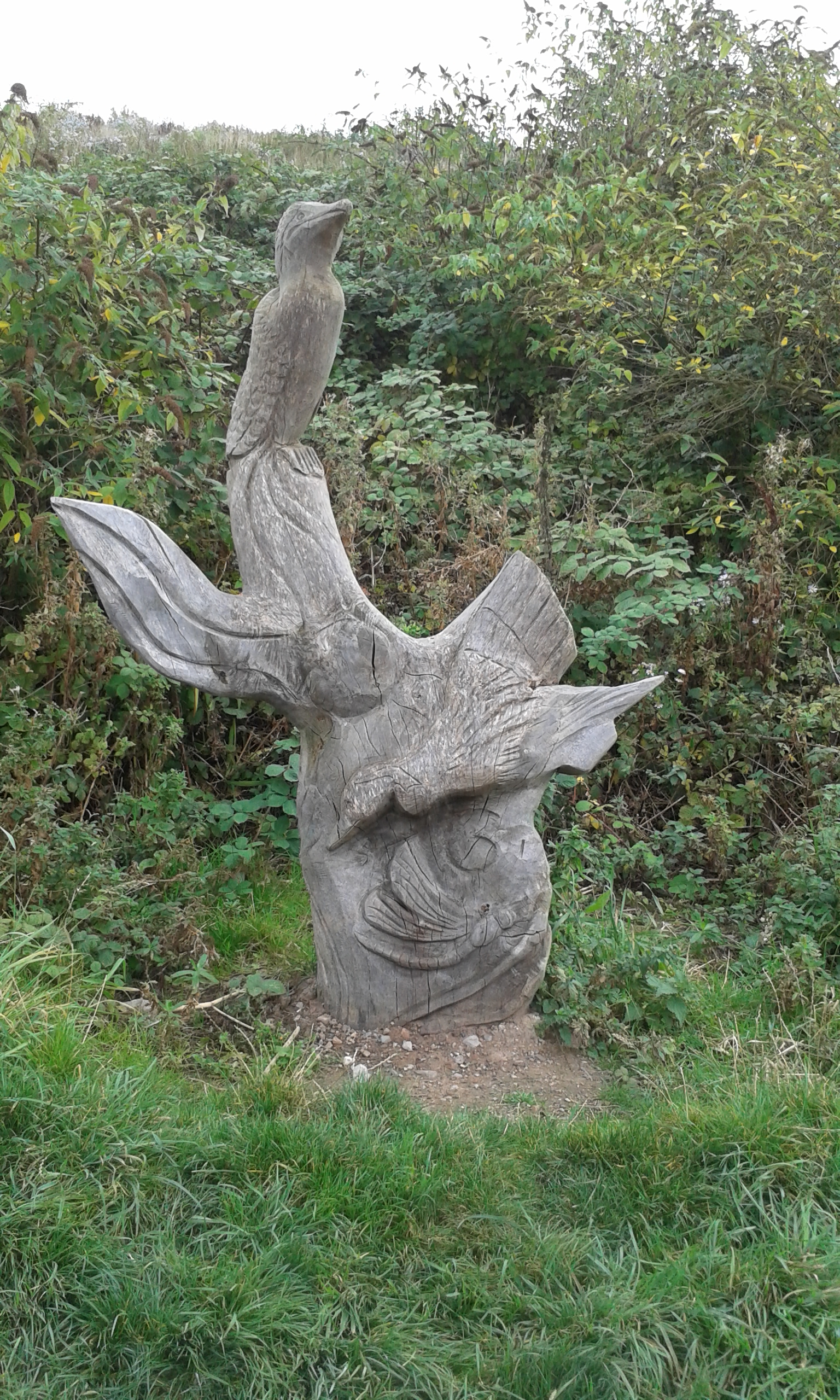 Tree stump sculpture at Port Sunlight River Park, Wirral, England.